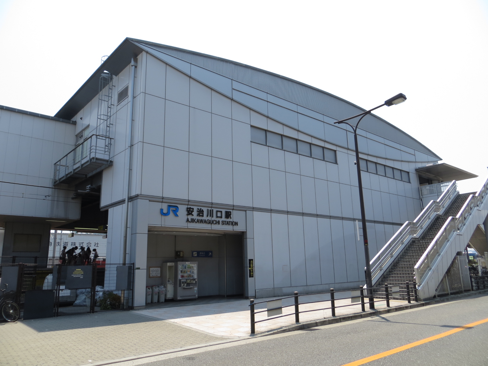 Station building from Ajikawaguchi Station, Sakurajima Line.